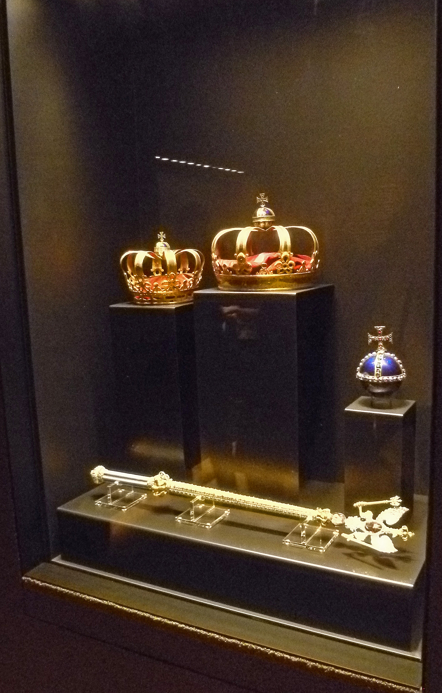 Royal insignia used by Friedrich I during his Königsberg coronation; Charlottenburg Palace, Berlin, Germany